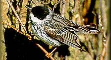 Blackpoll warbler from US NPS